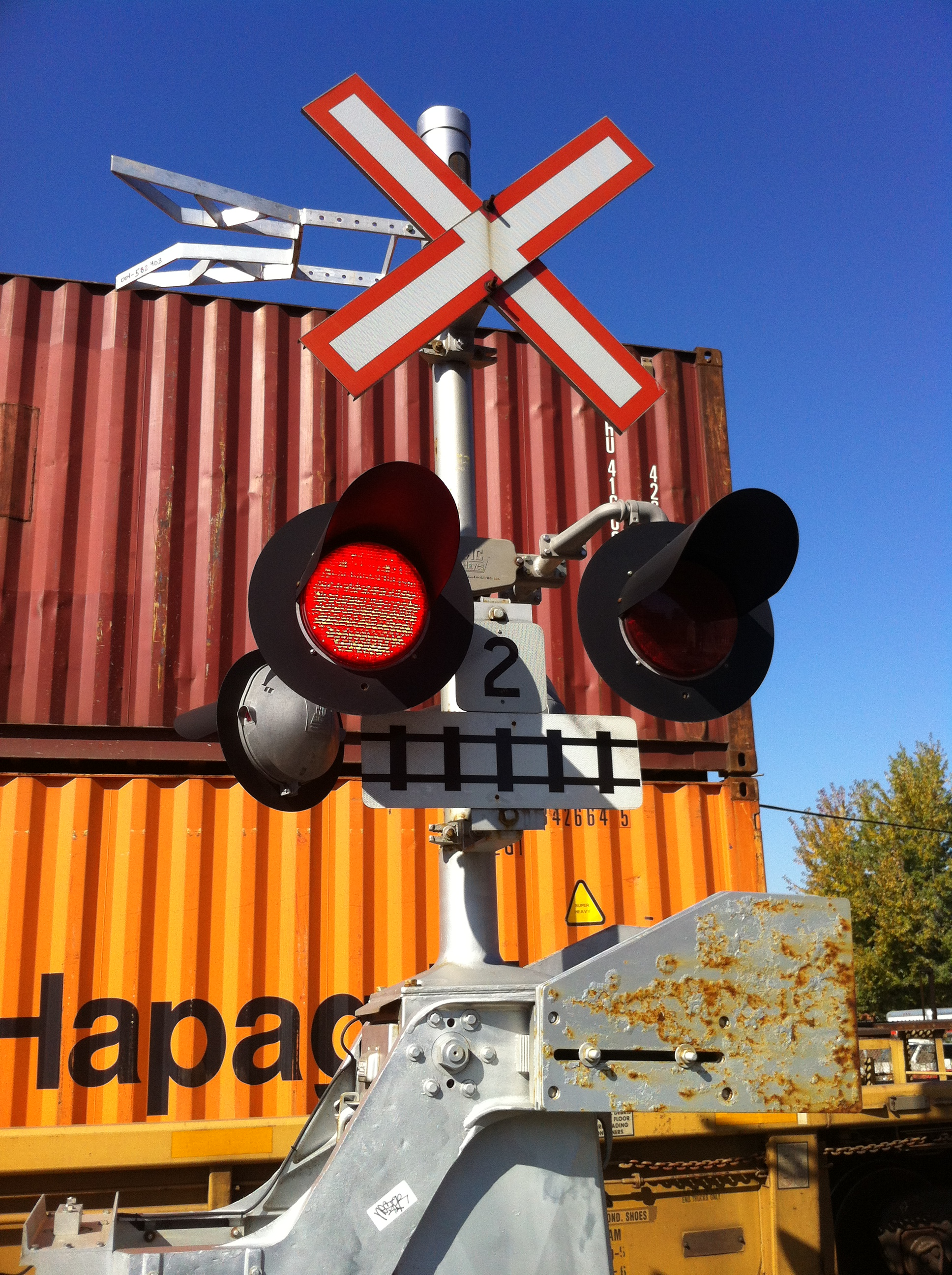 A railroad crossing in Montreal, Canada.